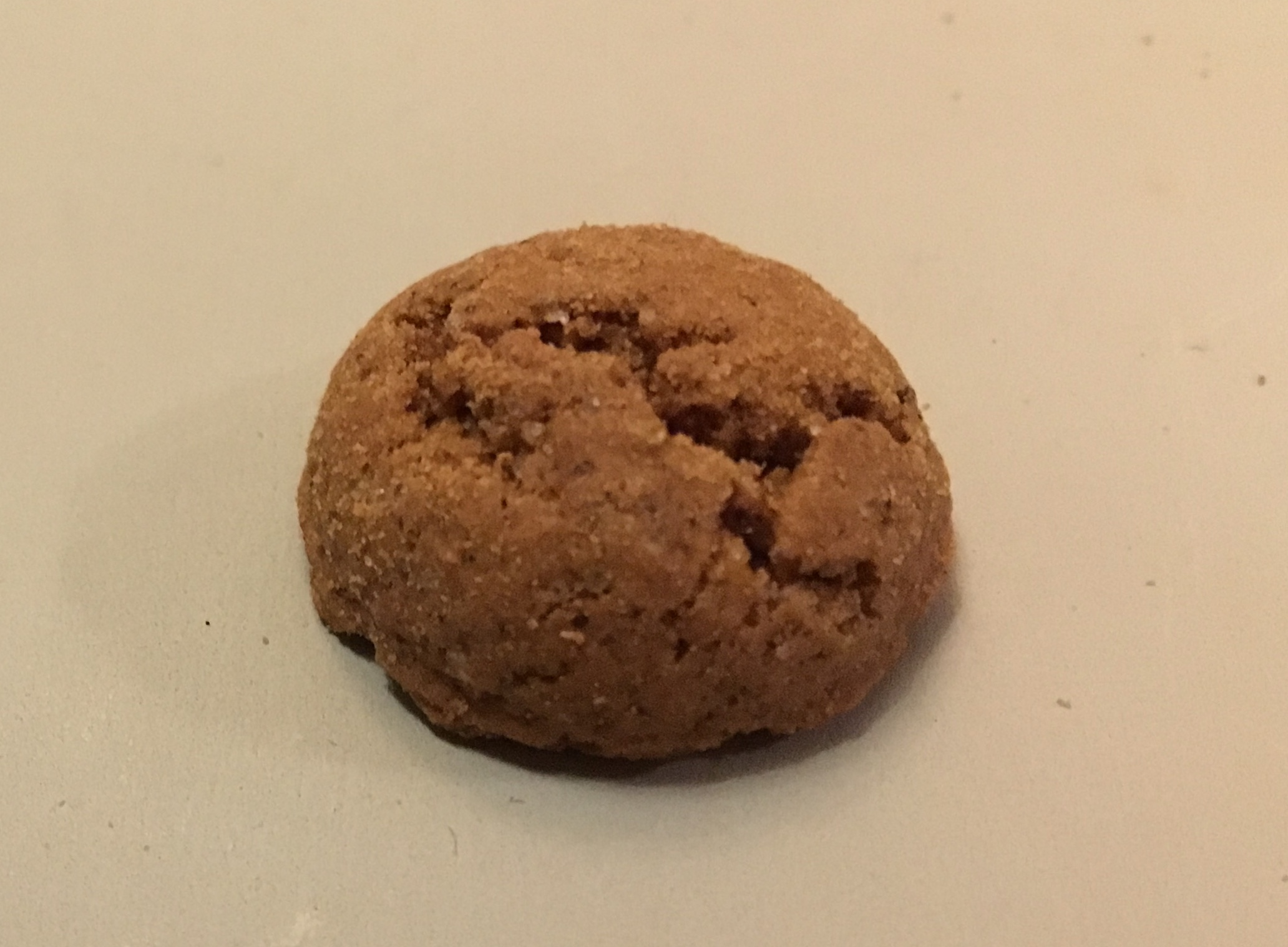 Knapperige kruidnoot AH